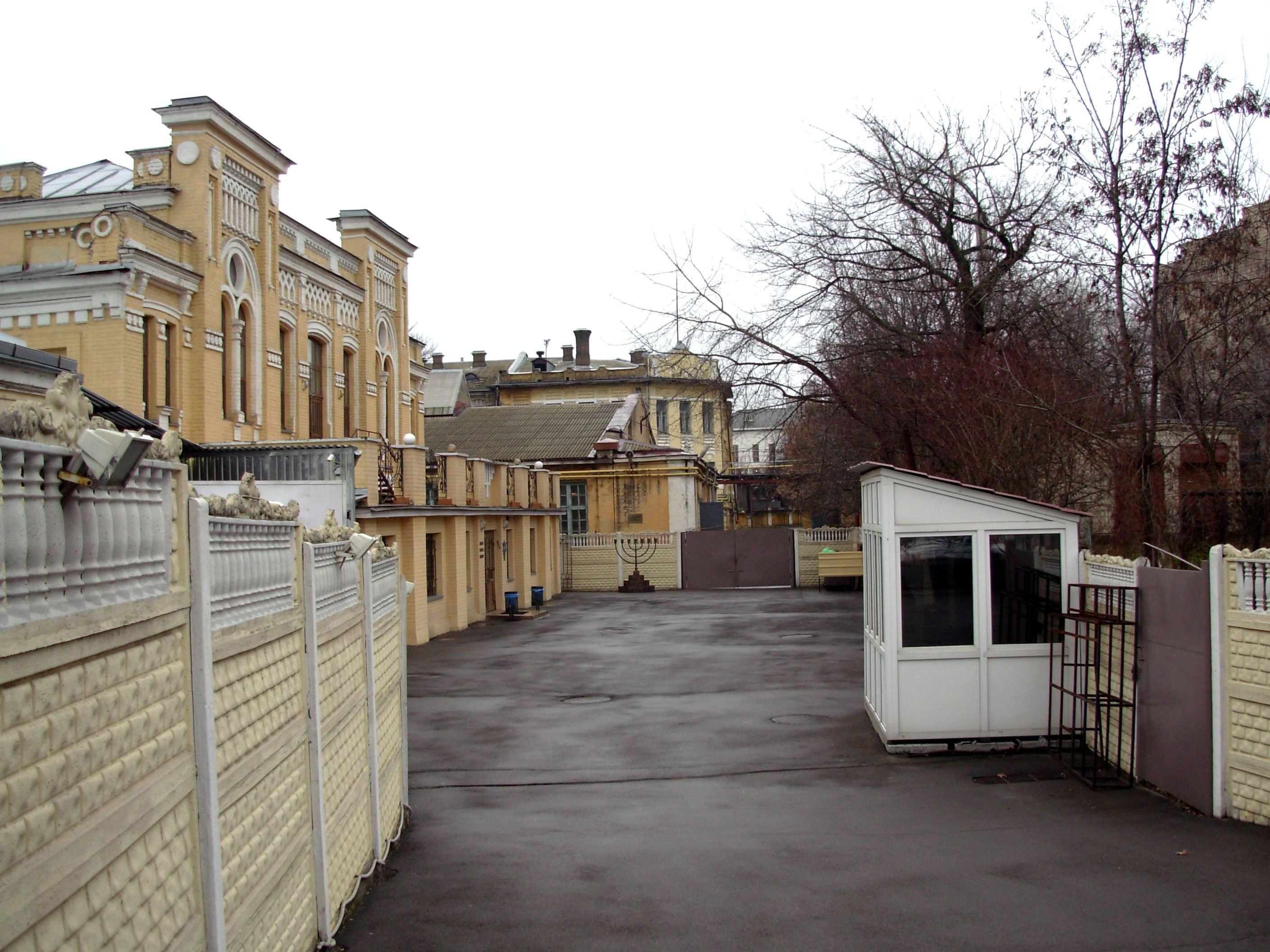 Former Skomoroskyi Lane with Galitska Synagogue on the background, Kyiv, Ukraine